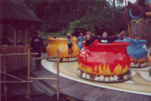 Description Arnout en Rachel in de Efteling. Date2001SourceOwn workAuthorS.M. Hofman Arnout en Rachel in de Efteling.